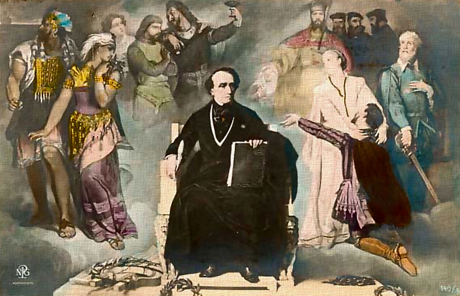 Apotheosis of Giacomo Meyerbeer : Colorized postcard showing the opera composer with the main characters of his most famous operas around him